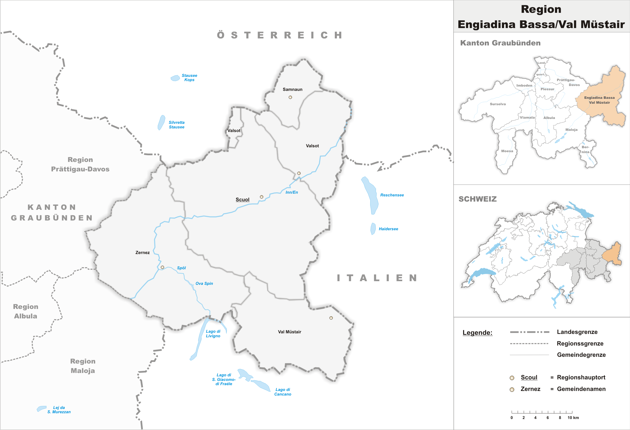 Municipalities in the district of Engiadina Bassa/Val Müstair